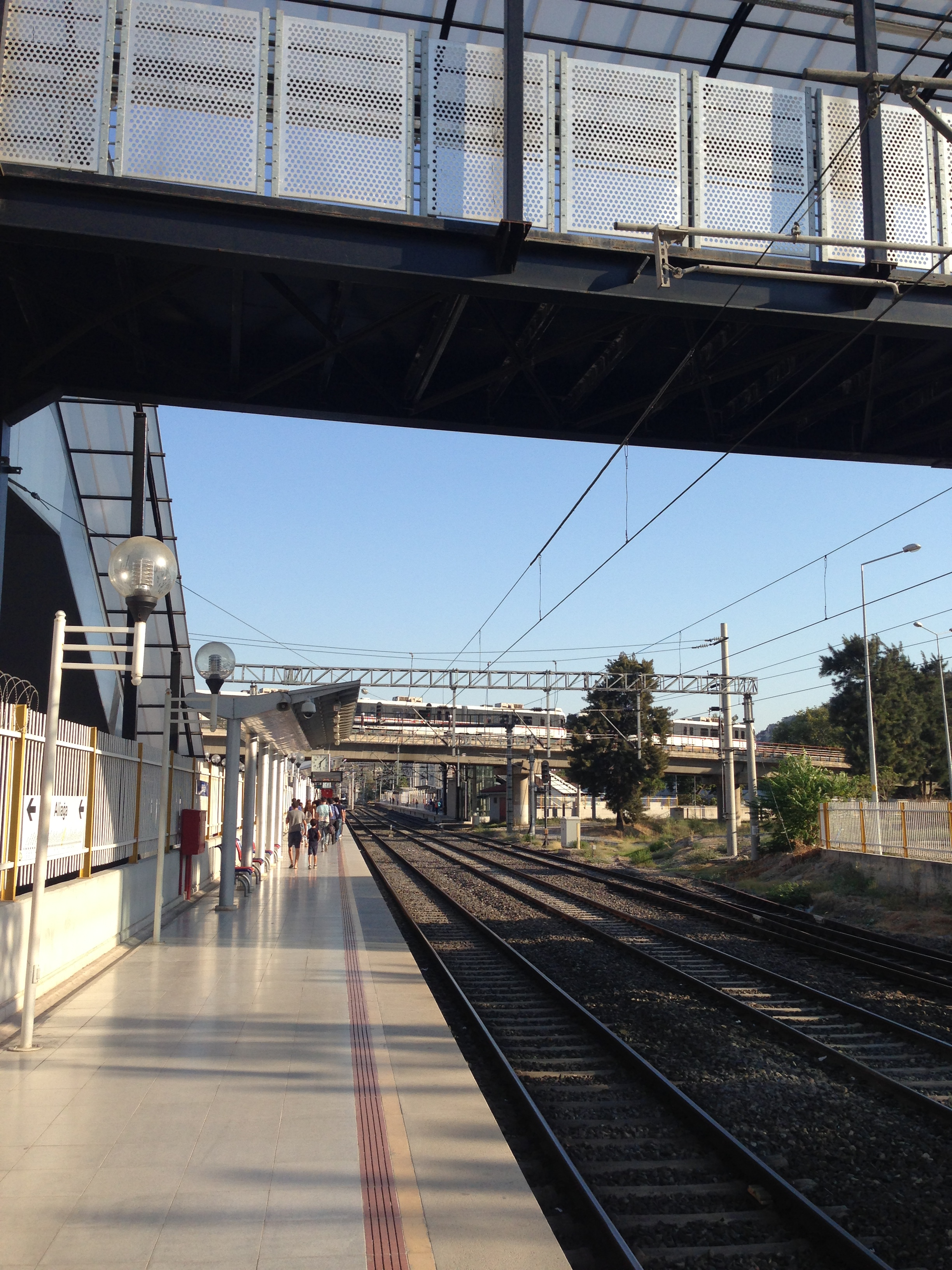 Hilal railway station.